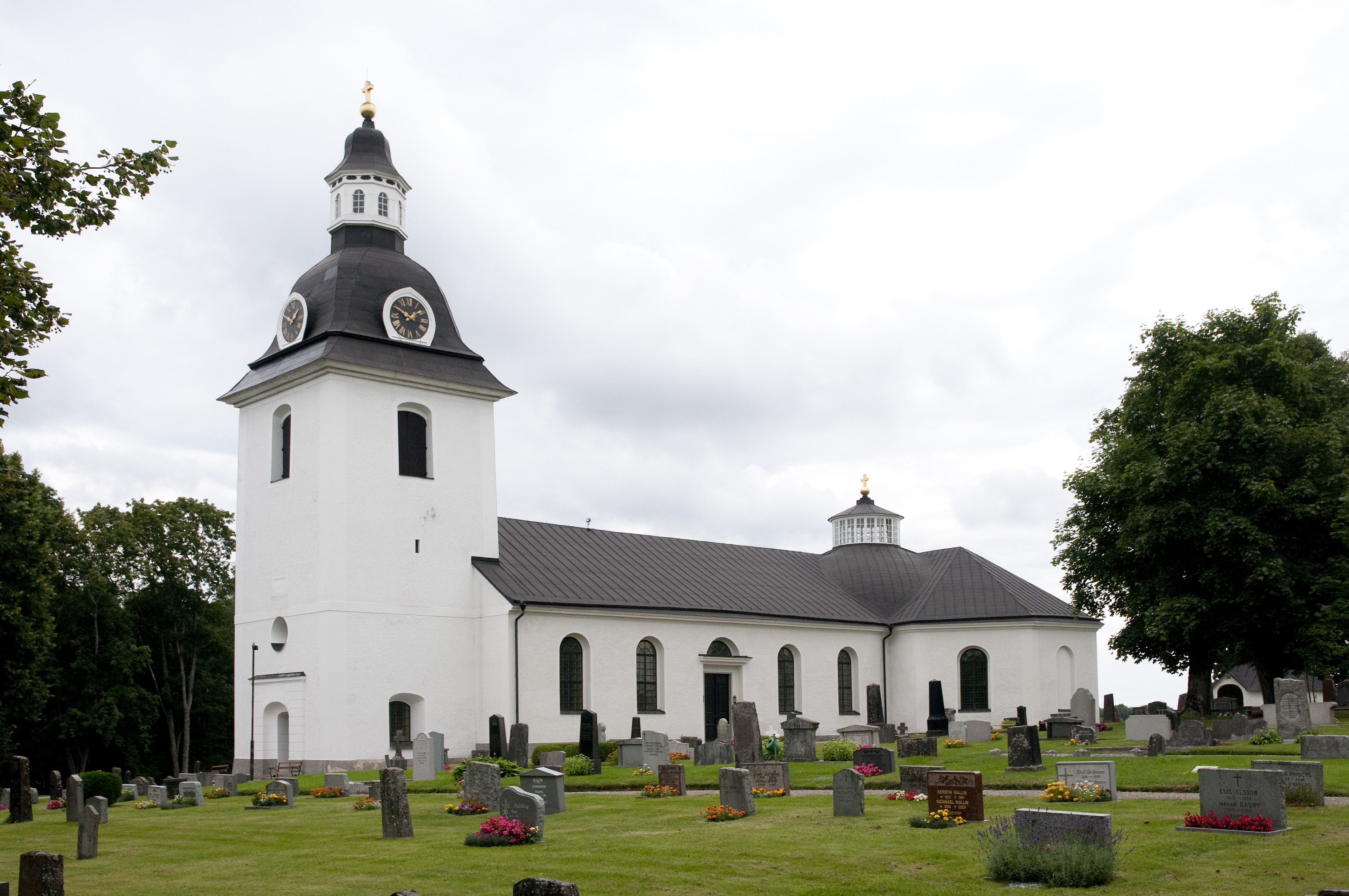 Skedevi church in the Diocese of Linköping, Finspång Municipality.